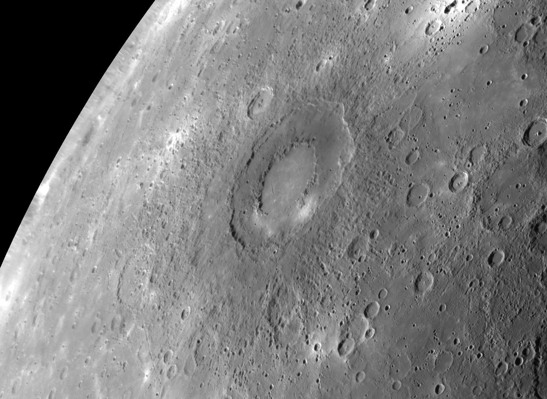 Instrument: Narrow Angle Camera (NAC) of the Mercury Dual Imaging System (MDIS) Scale: The diameter of Rachmaninoff is 290 kilometers (180 miles) Projection: This image is a portion of the NAC approach mosaic acquired during Mercury flyby 3. Shown here is an orthographic reprojection of that mosaic with a resolution of 500 meters/pixel (0.3 miles/pixel). Of Interest: The International Astronomical Union (IAU) recently approved the name Rachmaninoff for an intriguing double-ring basin on Mercury. This basin, first imaged in its entirety during MESSENGER's third Mercury flyby, was quickly identified as a feature of high scientific interest, because of its fresh appearance, its distinctively colored interior plains, and the extensional troughs on its floor. At the NASA science update to the media on November 3, 2009, this then-unnamed basin featured prominently in the imaging results presented, with both an enhanced-color image and a reprojected mosaic released and discussed. The basin’s name honors the Russian composer, pianist, and conductor, Sergei Rachmaninoff (1873-1943). Rachmaninoff joins ten other names for Mercury craters approved this month.